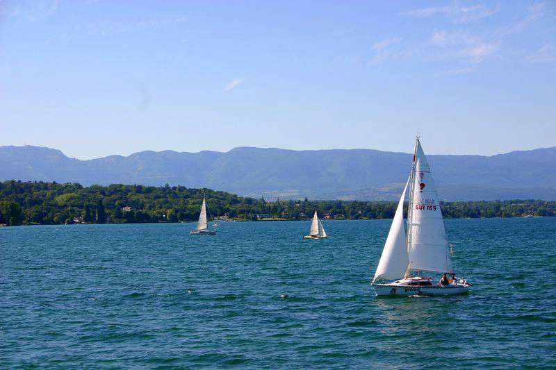 Sailboats on Lake Geneva, Switzerland